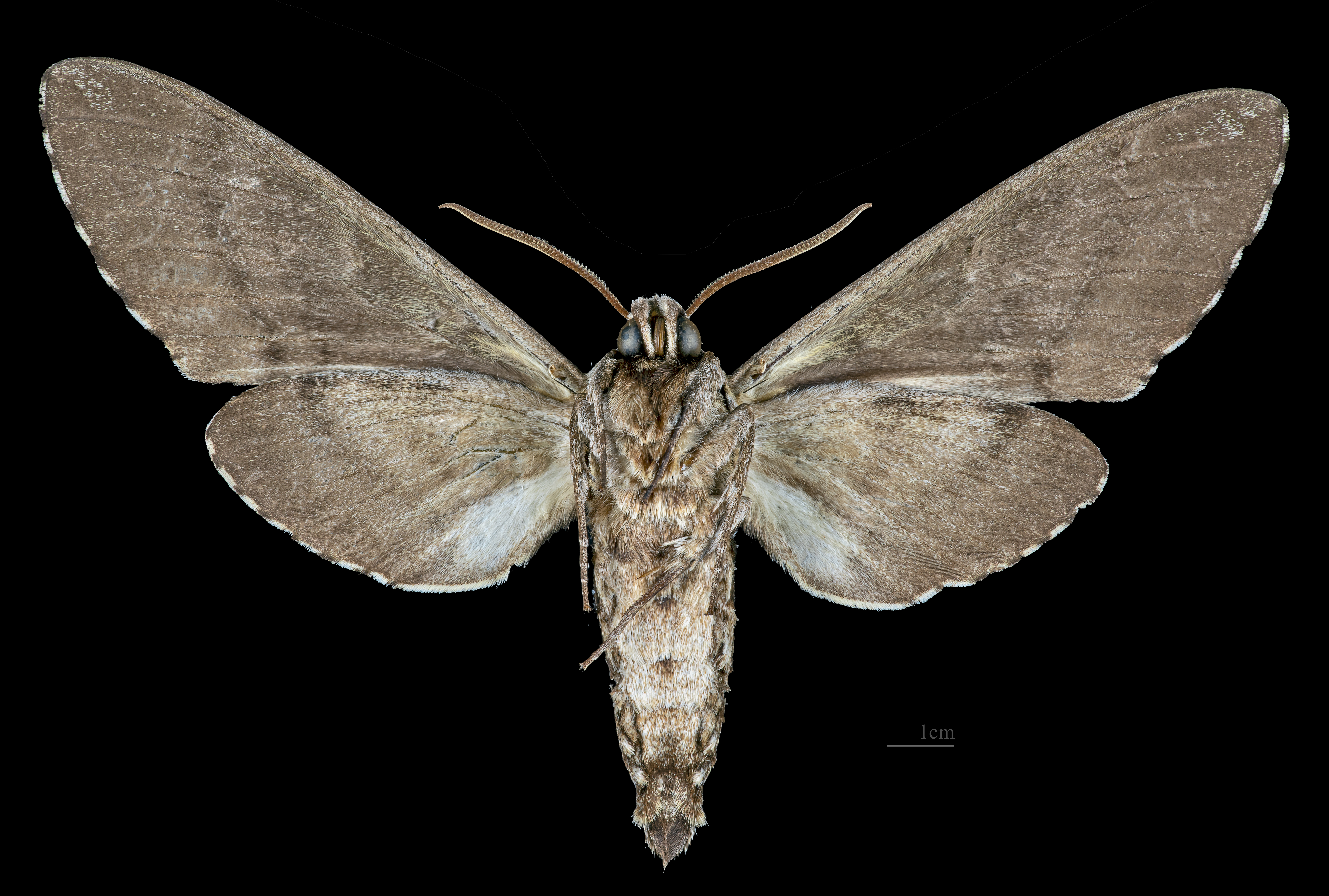 Manduca jasminearum - △ Ventral side Collection of the Mathematician Laurent Schwartz